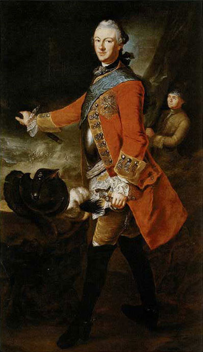 Portrait of Michał Kazimierz Ogiński (1730-1800)